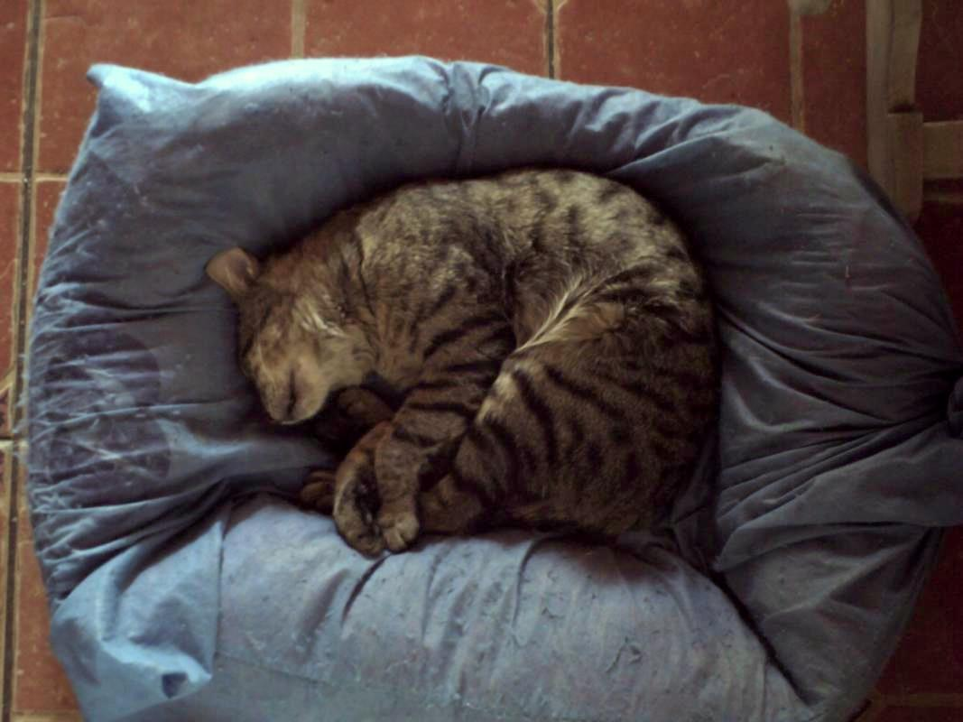 Cat sleeping